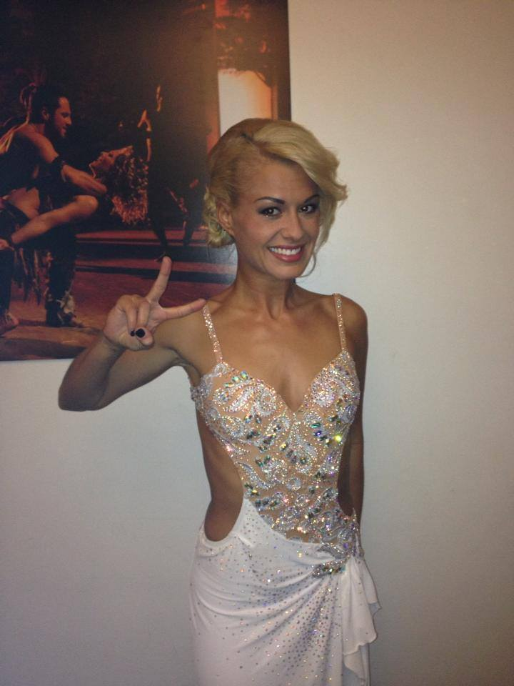 Backstage at Dancing With The Stars